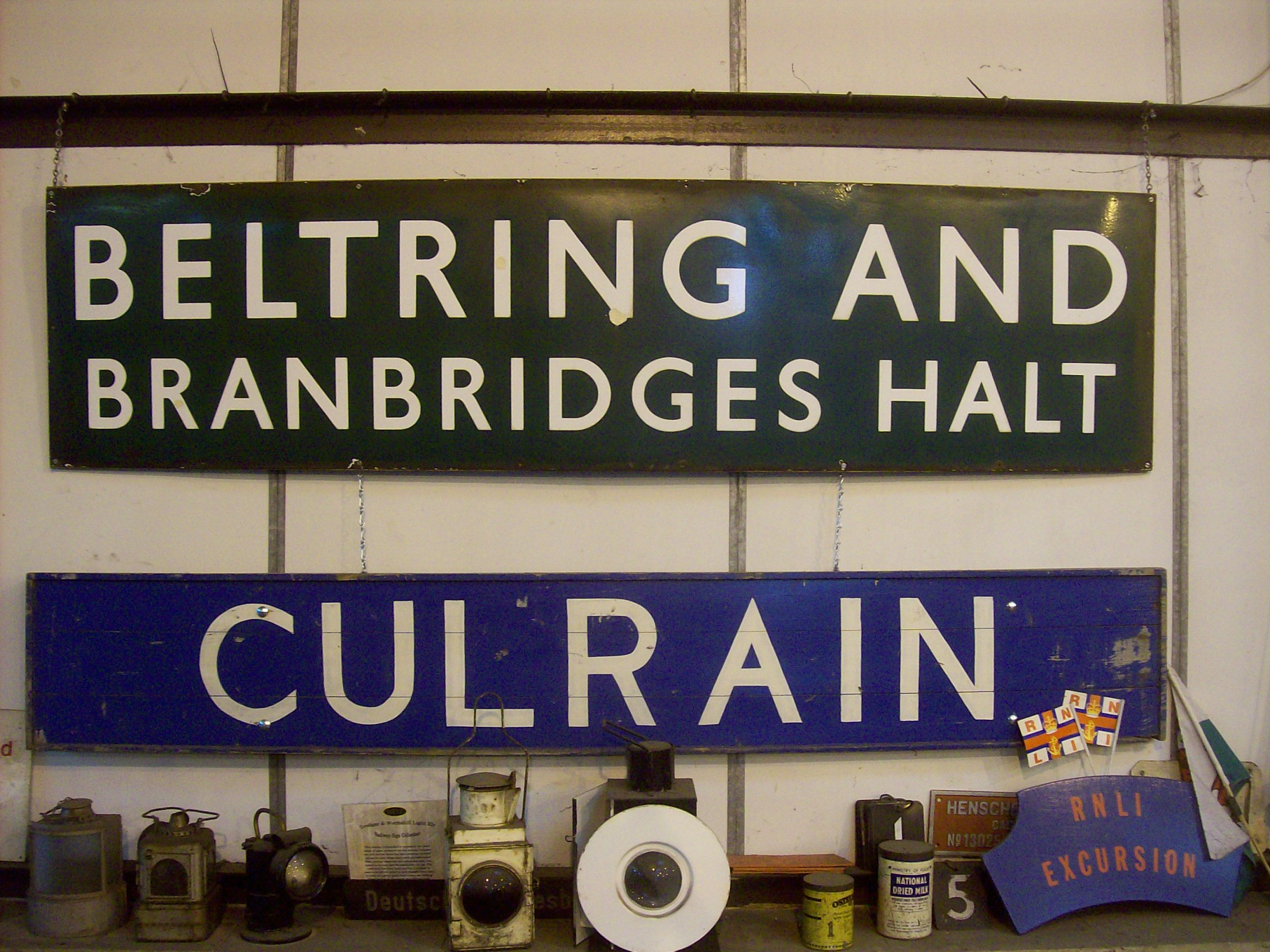 The running in boards from Beltring and Branbridges Halt and Culrain Station, preserved at the Bredgar and Wormshill Light Railway